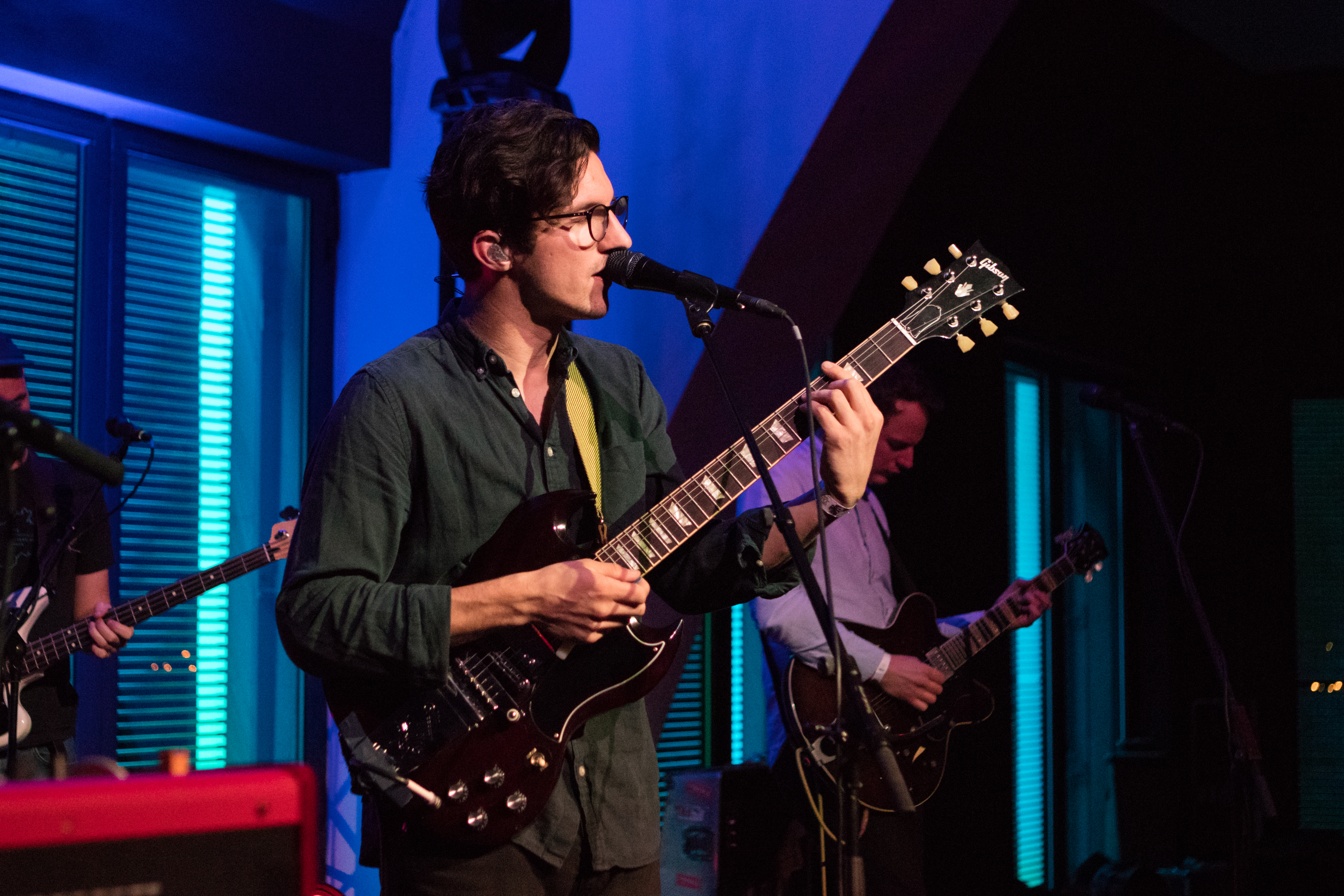 Dan Croll at Way Back When Festival 2017 in Dortmund